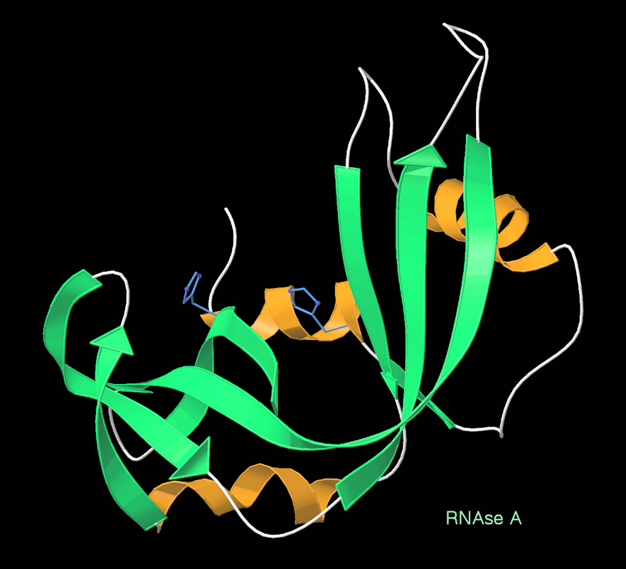 Ribbon diagram of bovine pancreatic ribonuclease A enzyme (PDB file 7RSA), with beta strands as green arrows, alpha-helices as gold spirals, and the active-site histidine sidechains in blue. From a kinemage display in Mage.